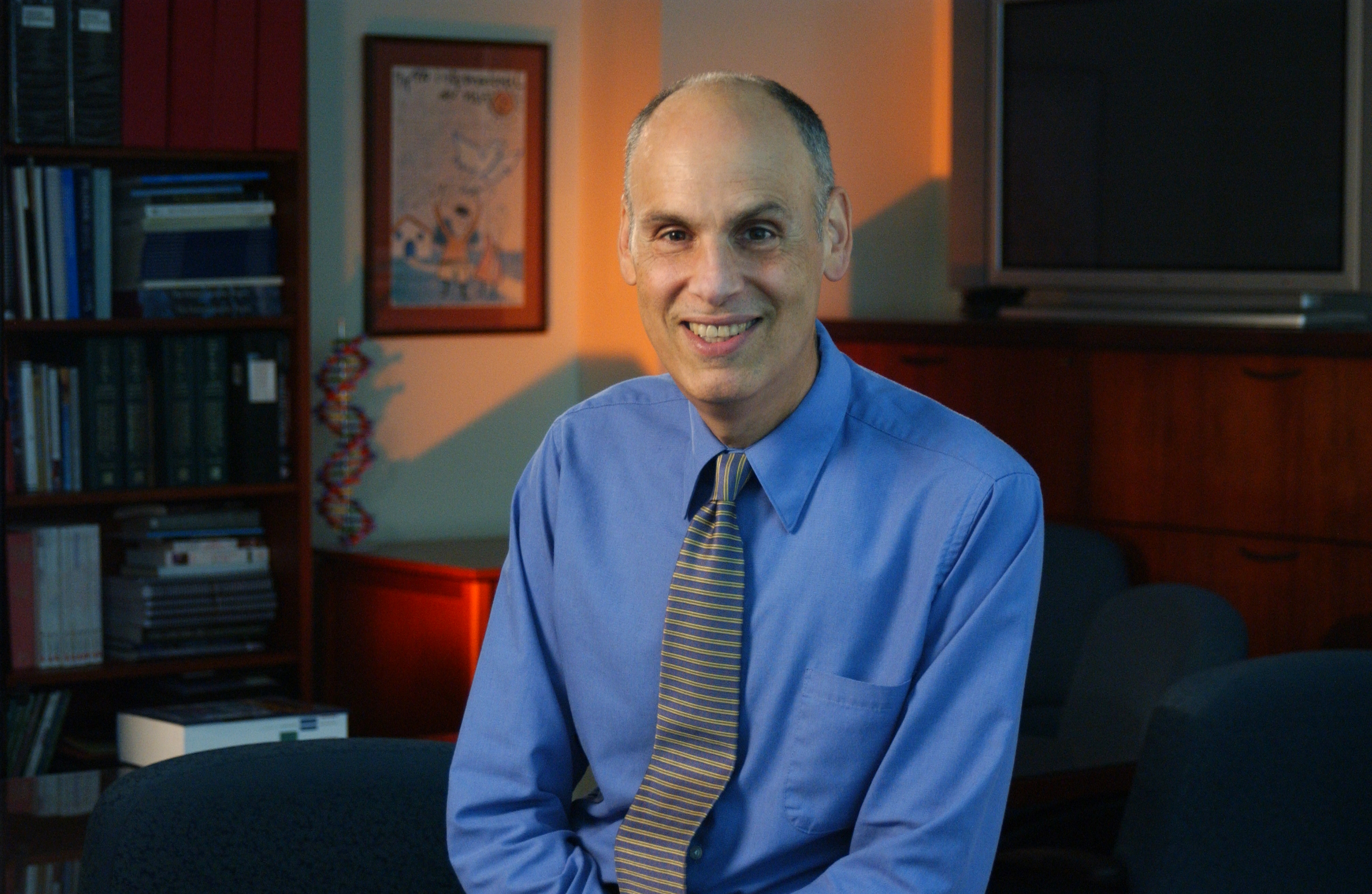 Dr. Alan E. Guttmacher, Acting Director of NHGRI